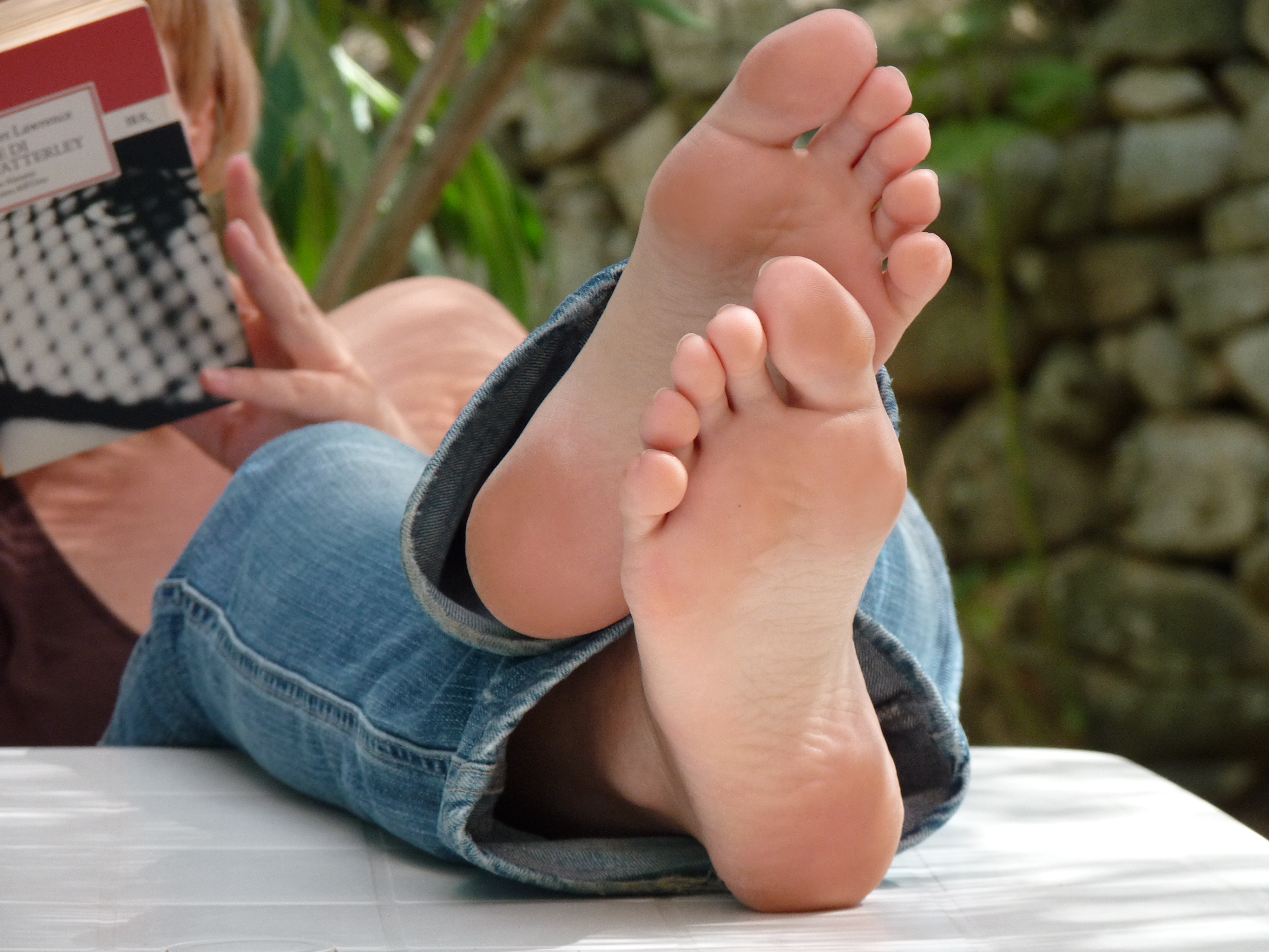 reading a book barefeet